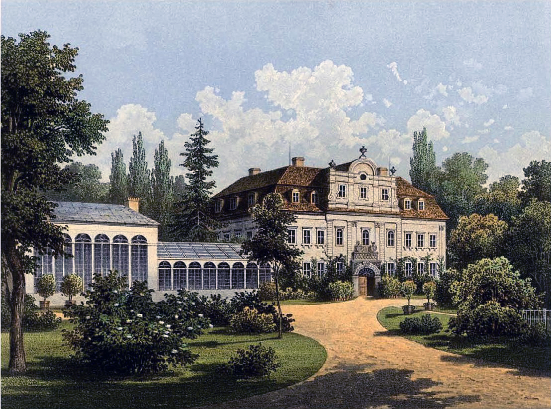 Manor in Kietlin, Poland